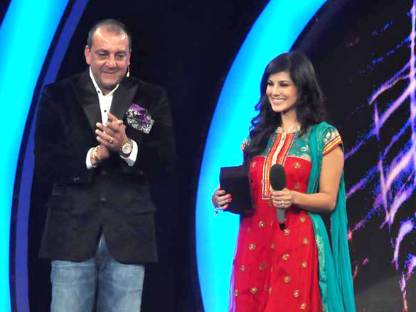 Sunny Leone at Bigg Boss series, India